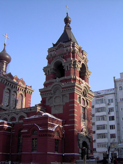 the tower of Shikejie Church